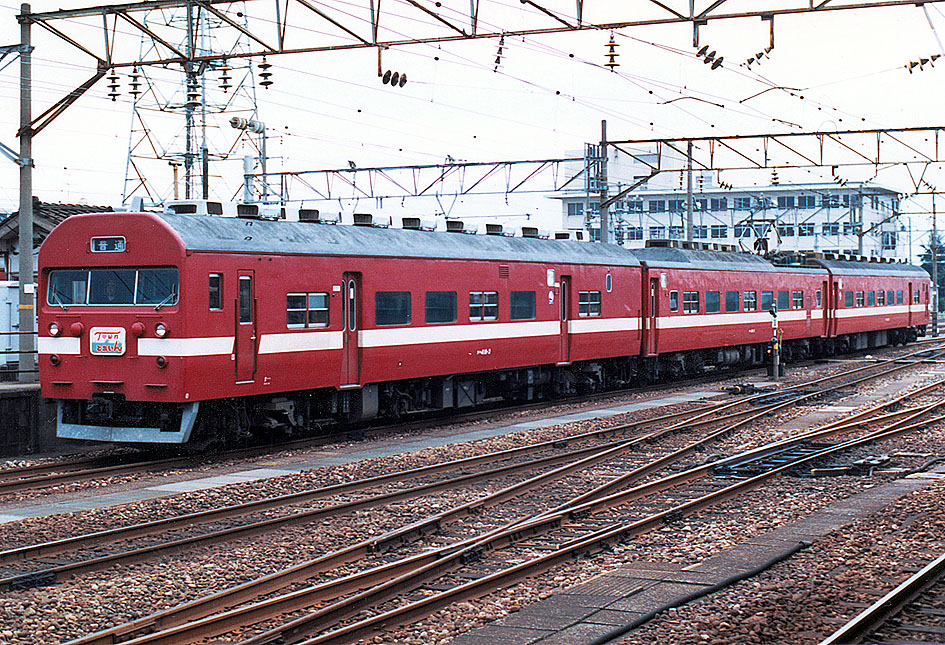 JNR 419 series EMU headed by KuHa418-3 in original livery in the late 1980s